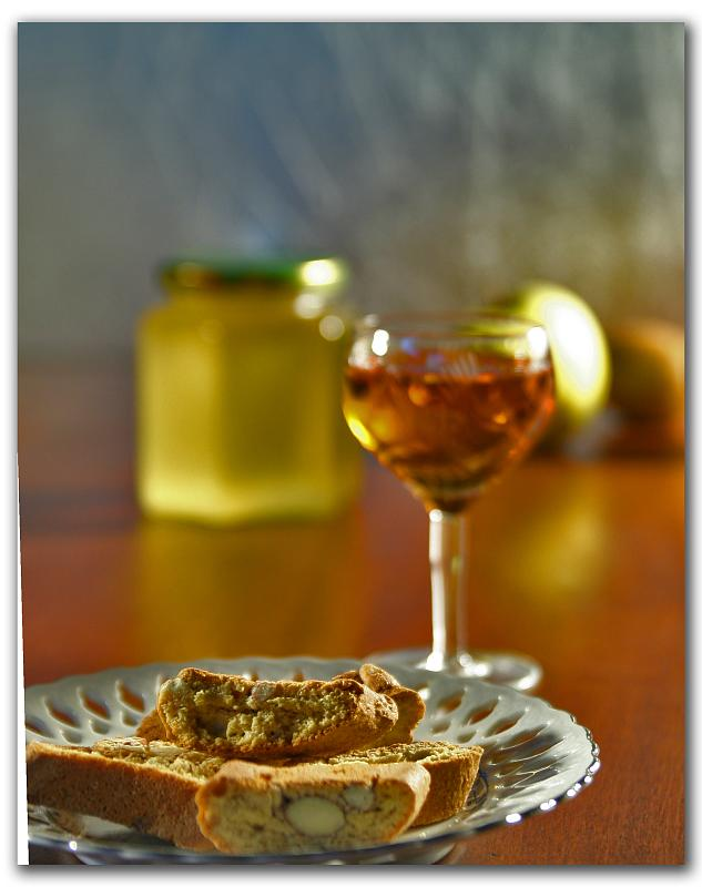 The Italian wine Vin Santo with its traditional food pairing of Biscotti